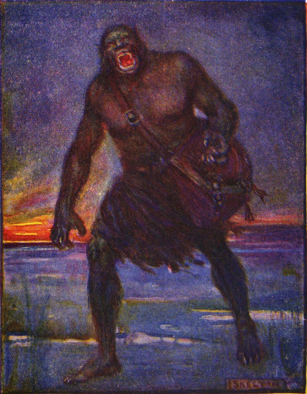 The epic poem Beowulf burr describes a battle in Denmark between Beowulf and a terrible monster called Grendel. The physical nature of the monster is left vague. “Now day by day this fearsome giant was tortured more and more, for to him it was a torture to hear the sounds of laughter and of merriment. Day by day the music of harp and song of minstrel made him more and more mad with jealous hate.” In the tale, Beowulf becomes king of a tribe known as the Geatings after slaying Grendel. An illustration of the ogre Grendel from Beowulf. Marshall, Henrietta Elizabeth (1908) Stories of Beowulf, T.C. & E.C. Jack, p. 5 Stories of Beowulf-1 Page 024 Image 0002.jpg